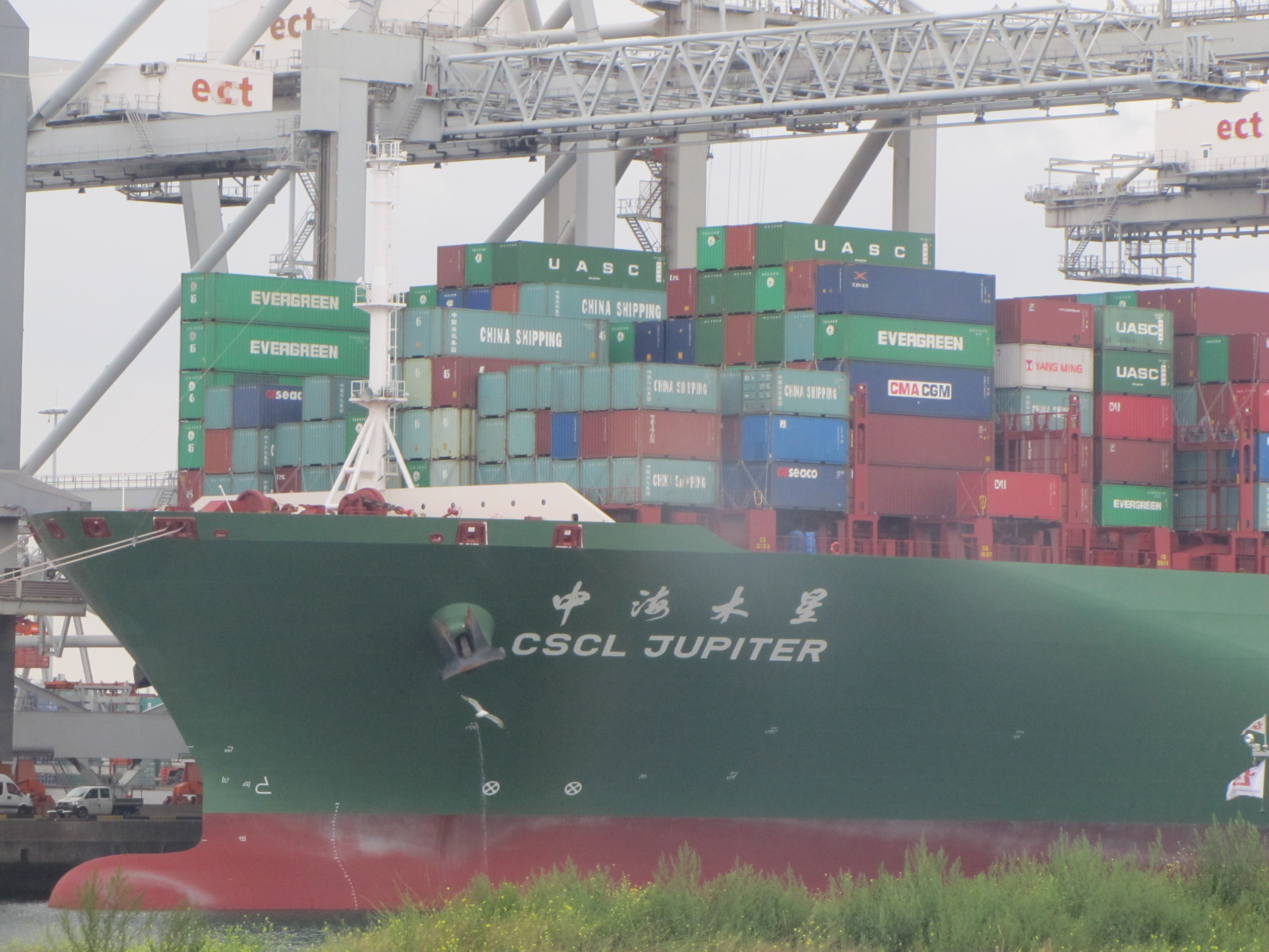 Bow of the CSCL Jupiter (a container ship) in the Port of Rotterdam